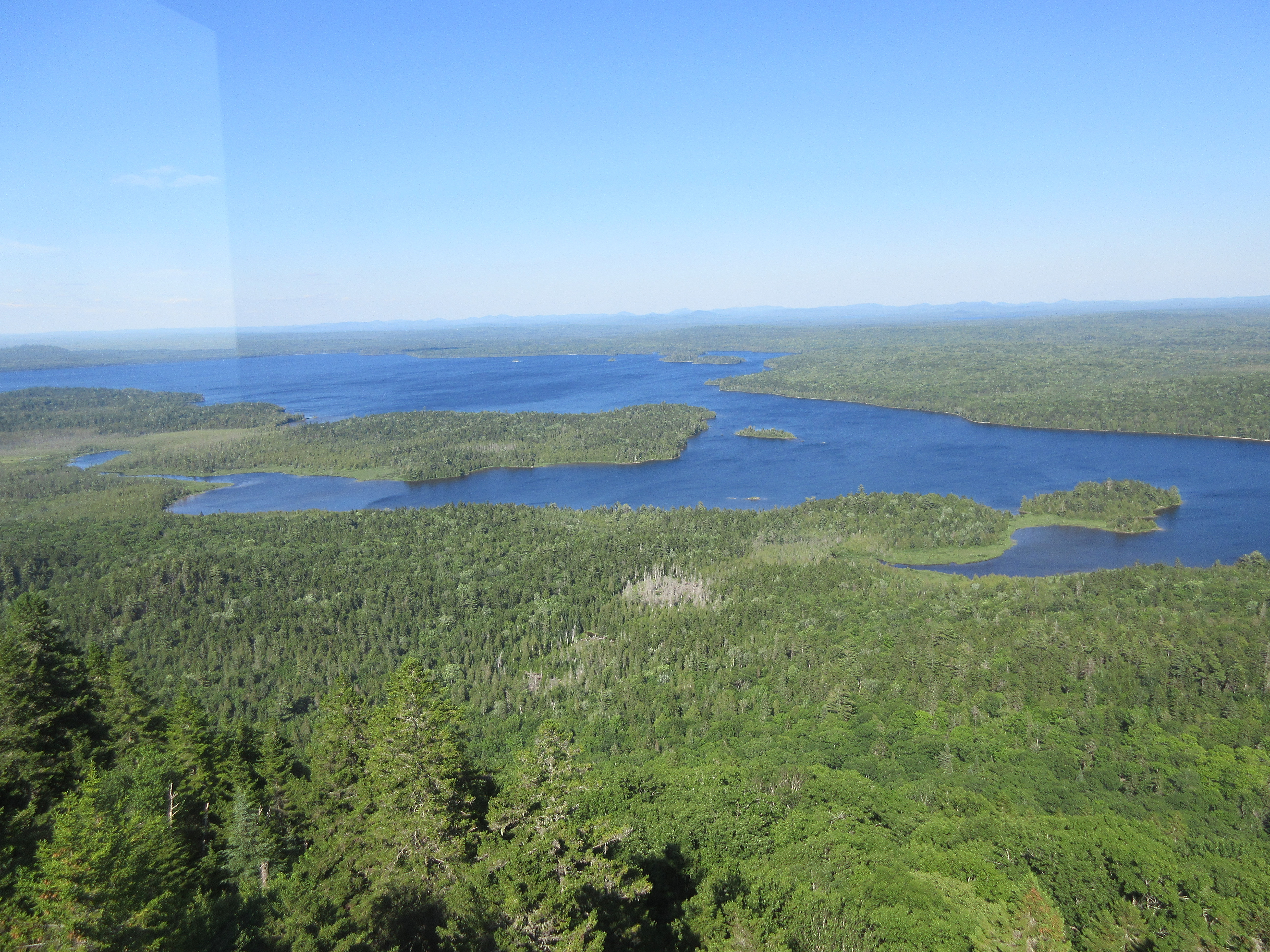 A view of Allagash Lake from a fire tower at the summit of Allagash Mountain.